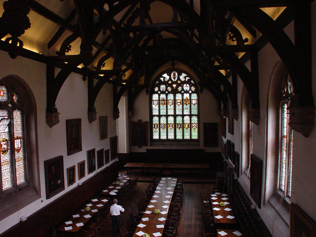 Wadham College Hall.